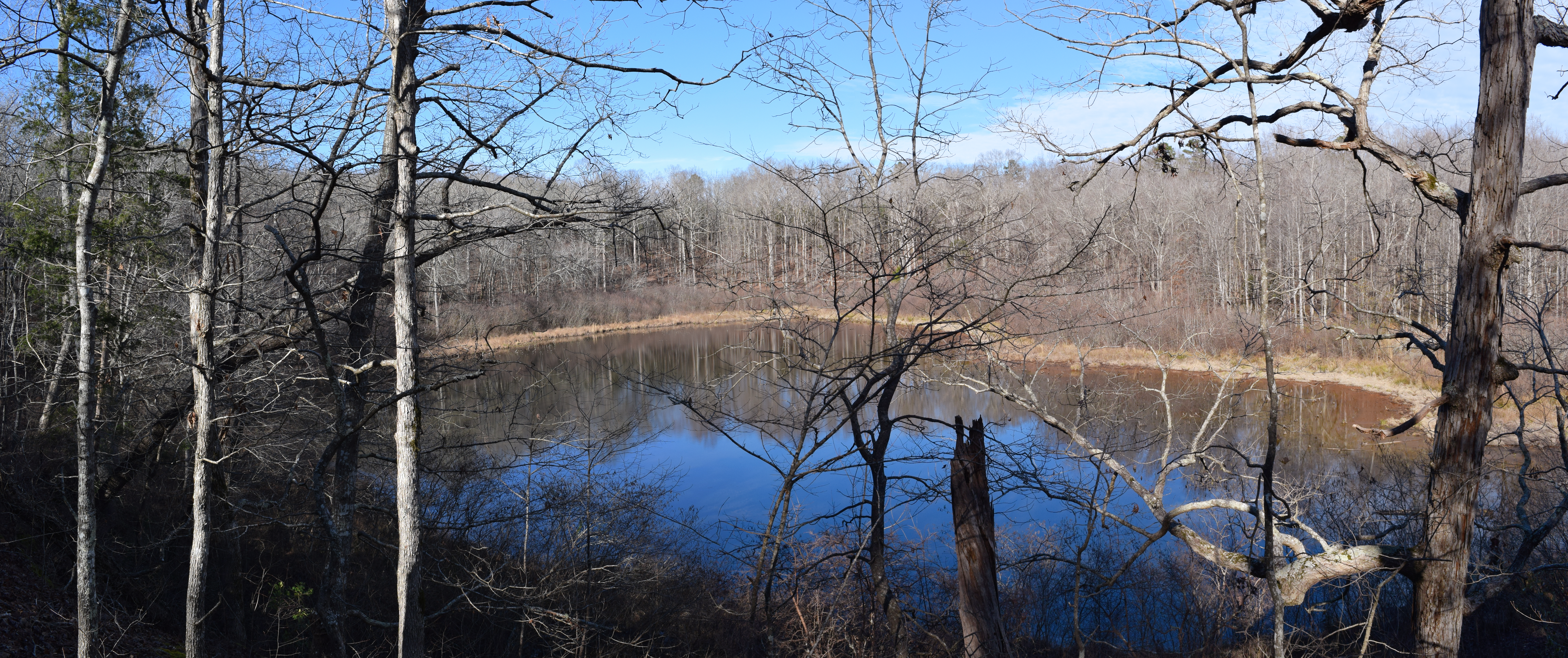 Baker's Pond in Holly Springs National Forest, Benton County, Mississippi